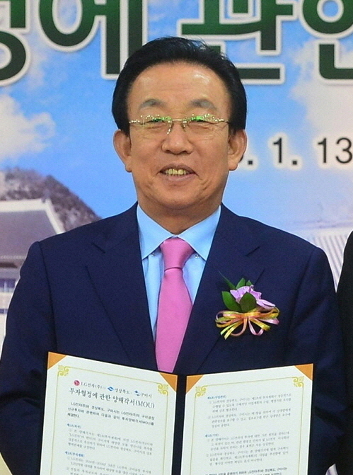 Kim Kwan-yong (Governor of Gyeongsangbuk-do Province) in Jan 2016